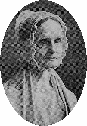 Cropped version of postcard with a portrait of Lucretia Mott